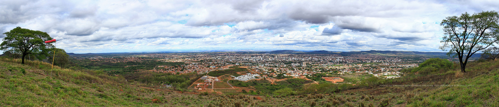 Panoramic view of Montes Claros, Minas Gerais, Brazil.